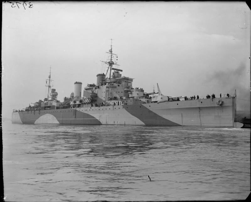 HMS London Under tow on the Tyne.